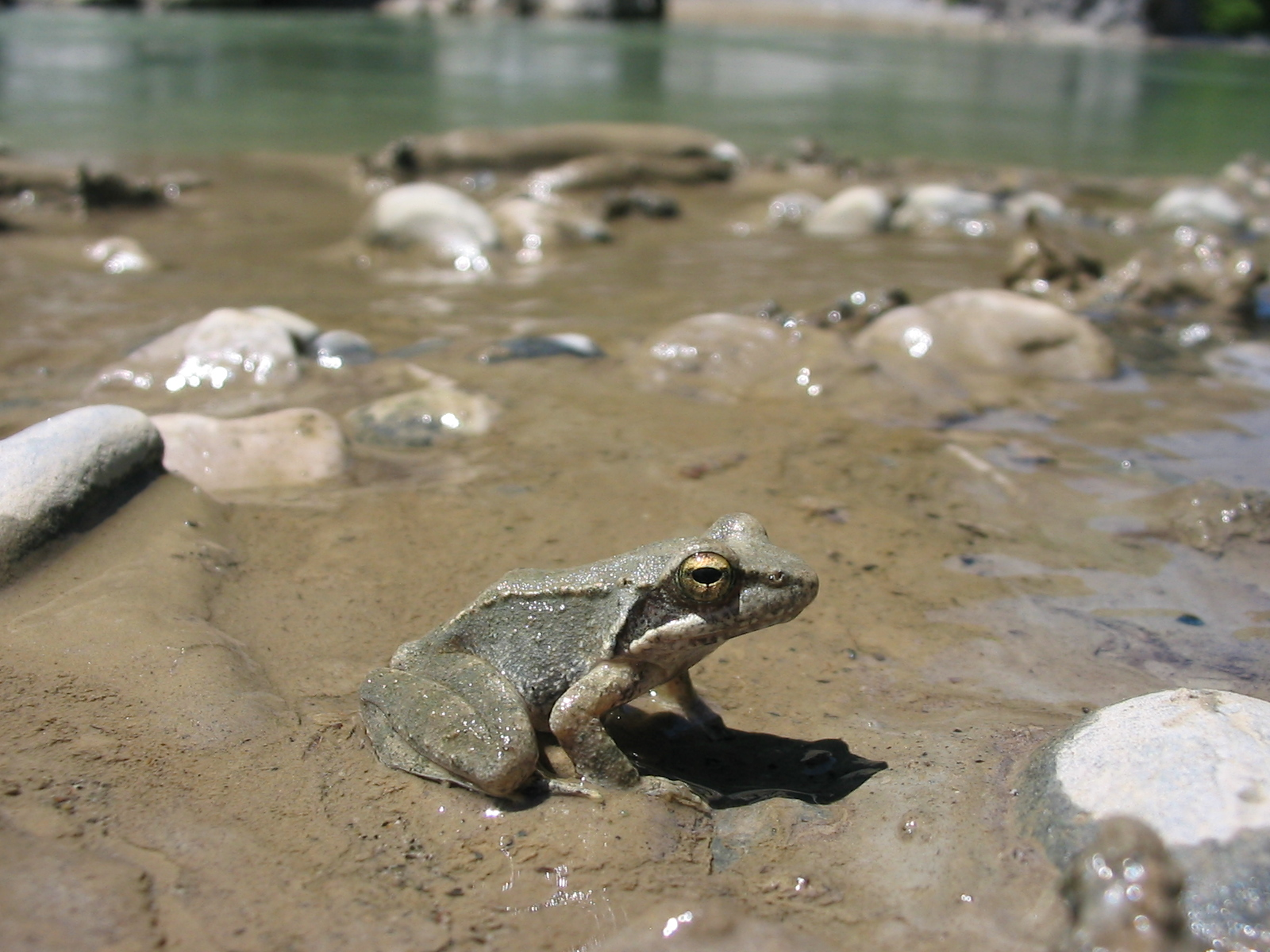 A tiny (distance from camera approximately 5 cm) frog in the river Aoos near Konitsa, [:en:Vikos-Aoos National Park], Epirus, Greece.